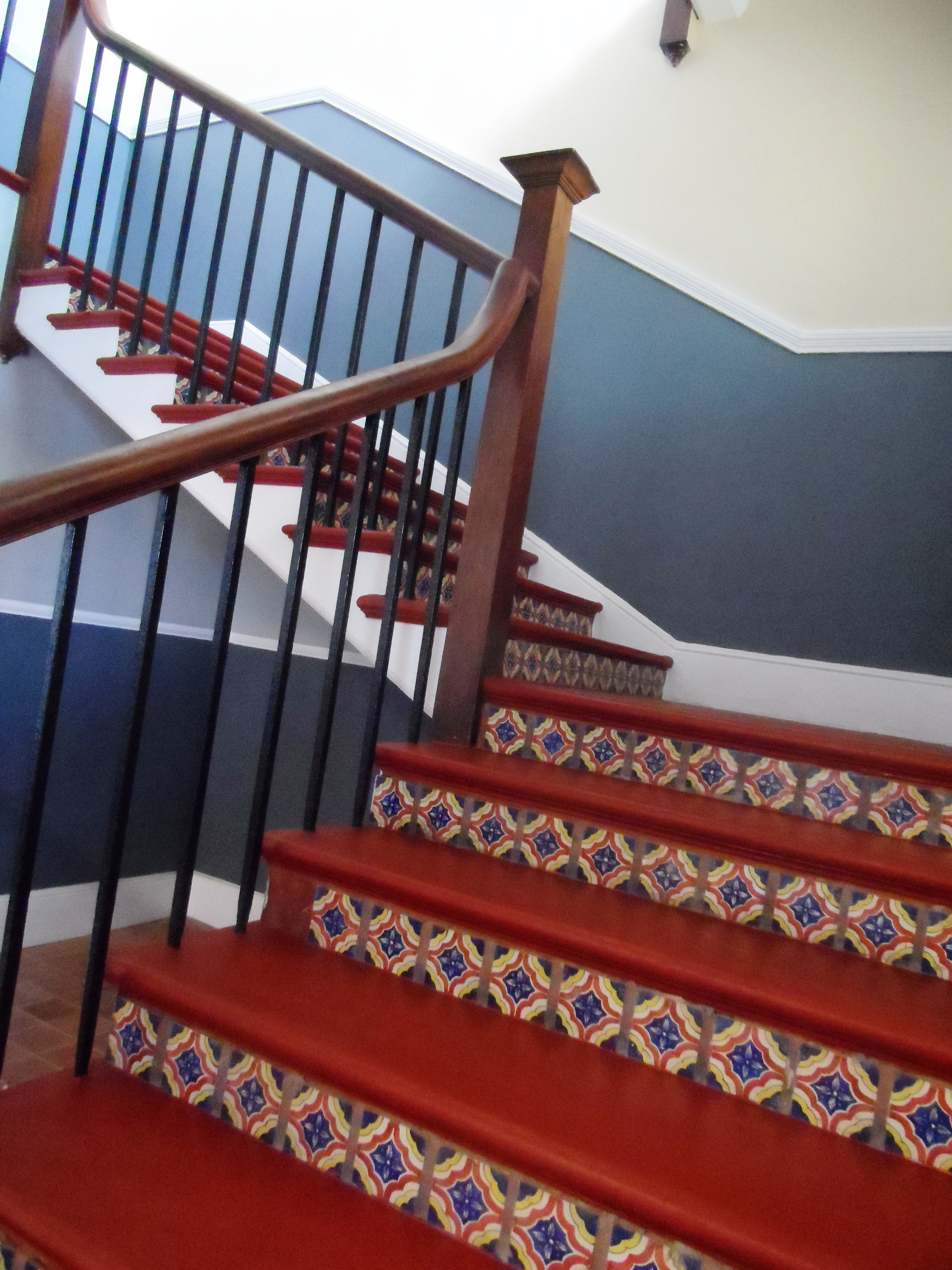 Step to the 1st floor. This media shows a South African Protected Site with SAHRA file reference 9/2/081/0031.